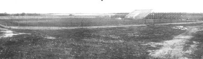 Cancha de Colón de Santa Fe. Primeras tribuna de cemento central 1945